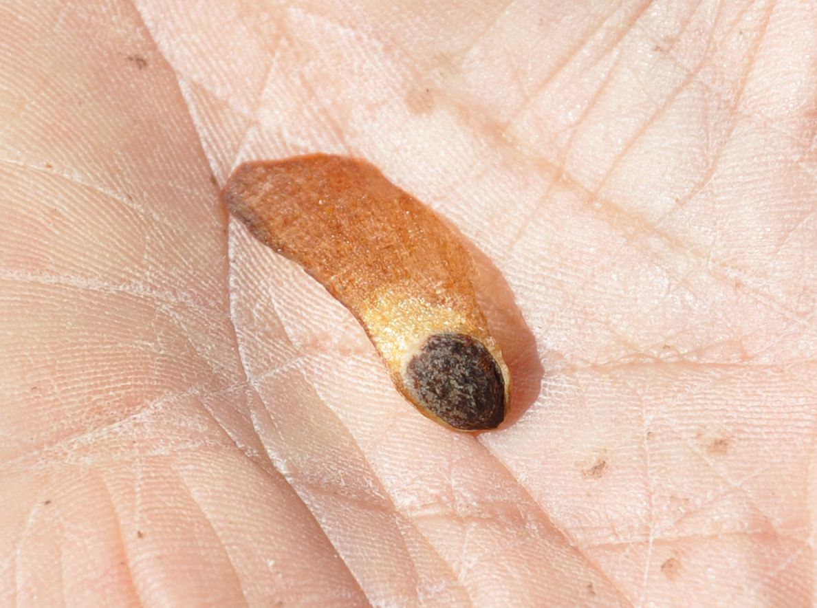 Pinus ponderosa var. brachyptera seed. Kaibab National Forest, Arizona.